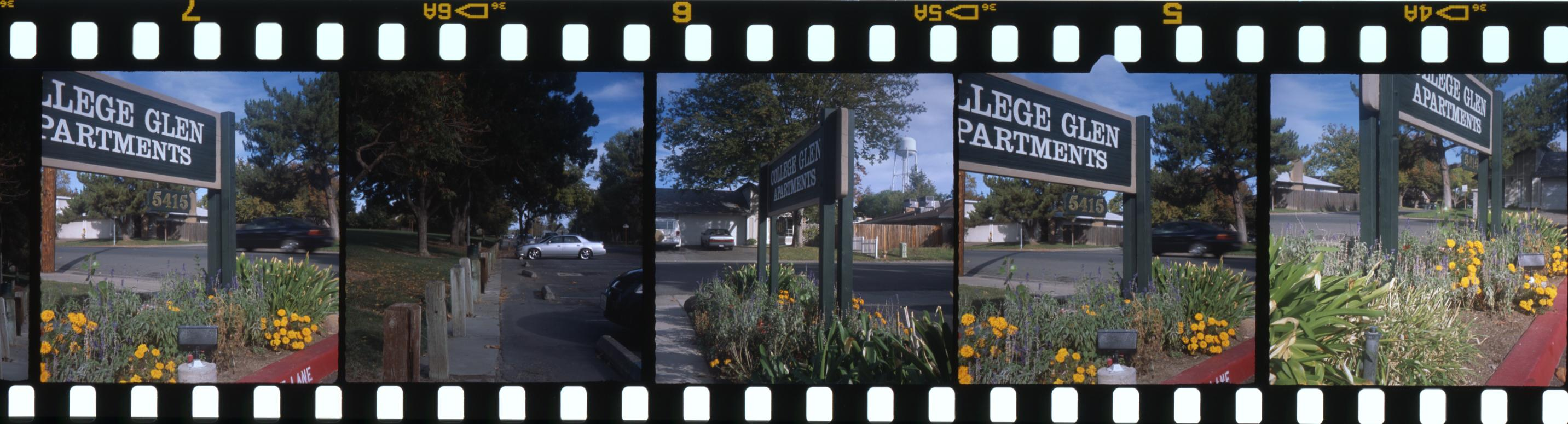 Image strip from a Realist 45 camera, taken with old Fuji Provia 100F film, processed as uncut E6 through Walmart, and scanned on flatbed scanner using transparency adaptor. Note that image 7 is the right eye image of a pair with image 5 being the left. Note the notch on the left eye image. Also, image 5a/6 is the right eye image of another pair and the image just to right of 4a (not visible) is the left eye image of the same pair.